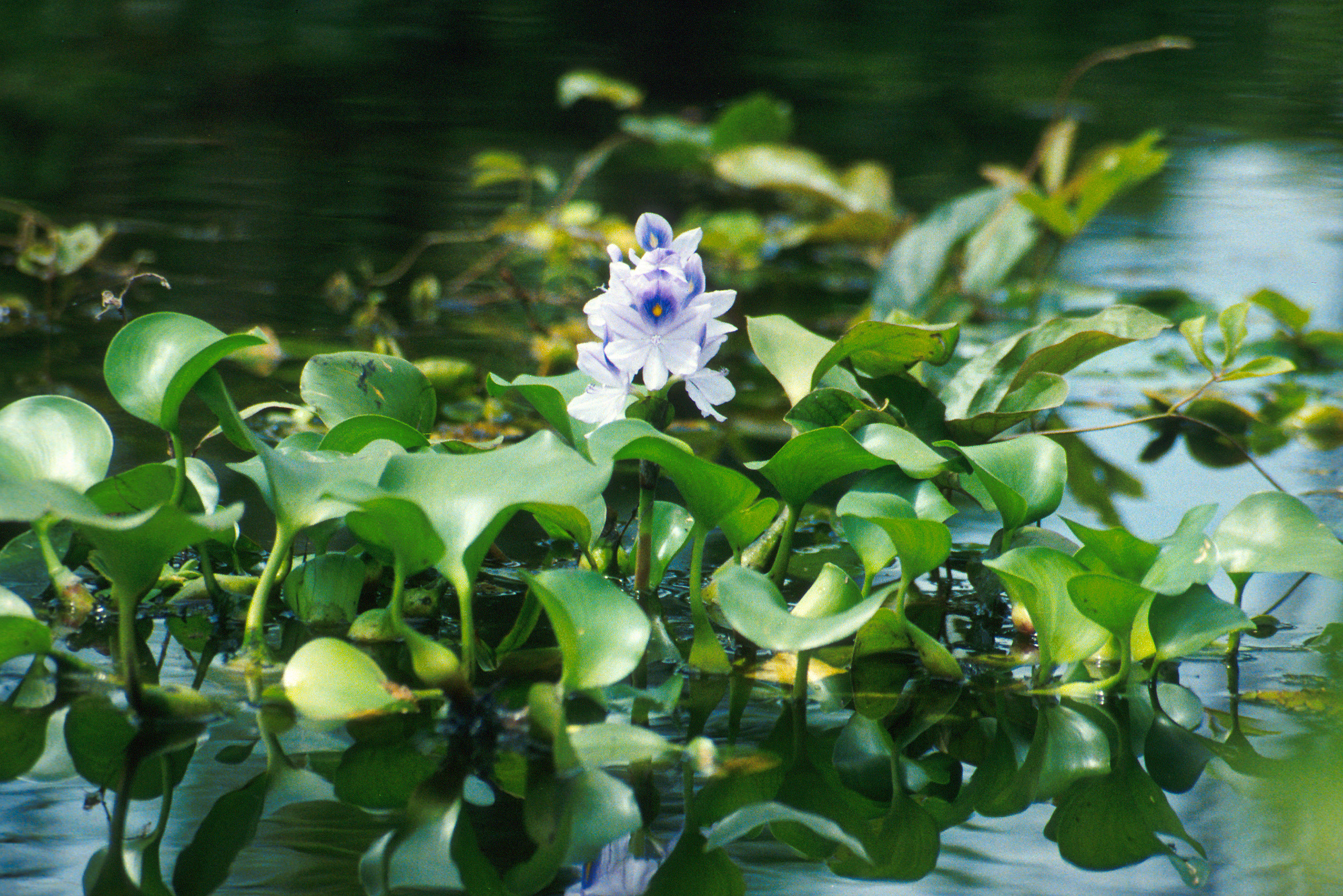 Common water hyacinth (Eichhornia crassipes)